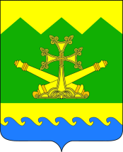 Coat of arms of Tenguinka, Tuapse, Krasnodar, Russia